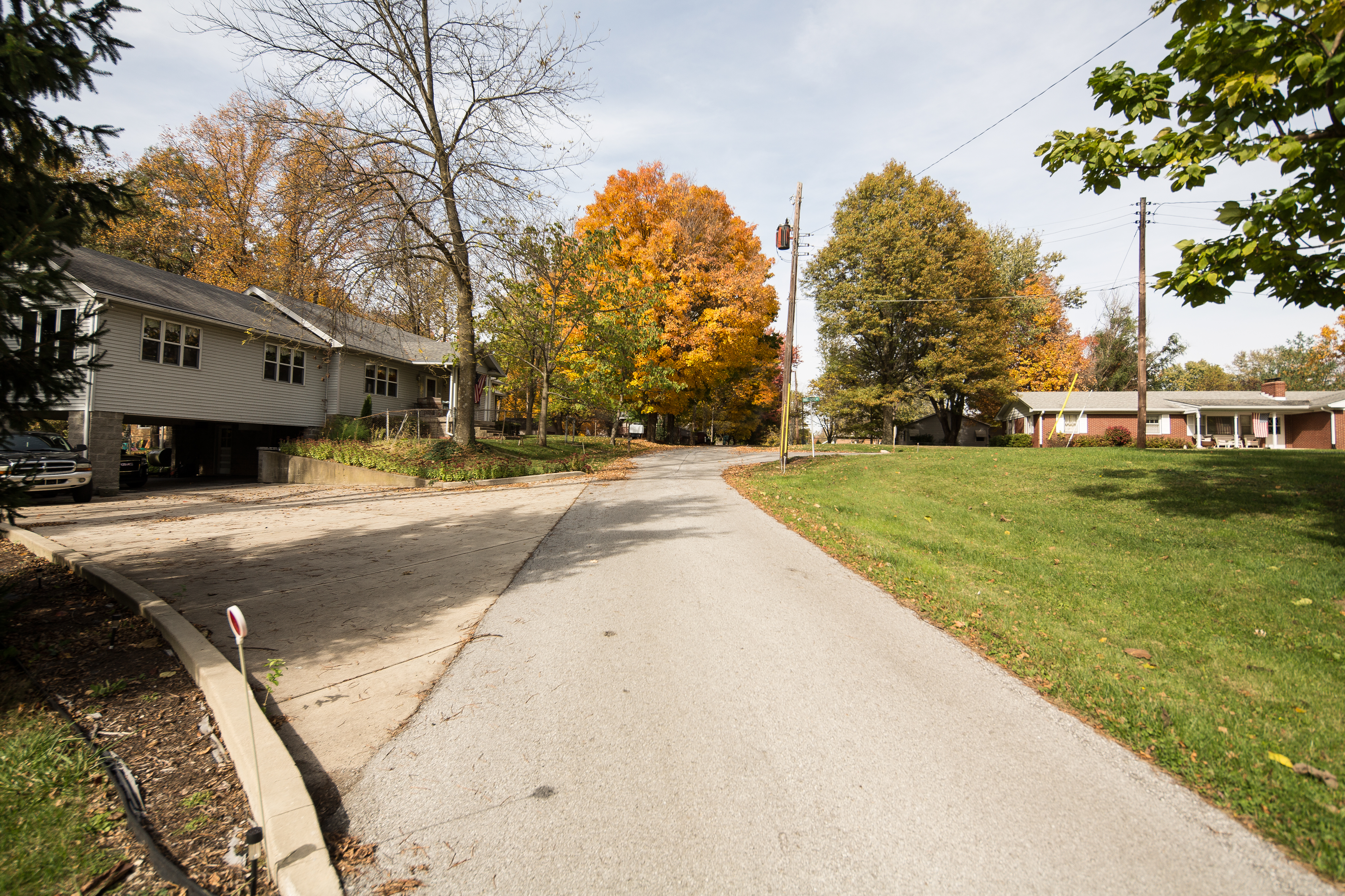 Springlake,Indiana